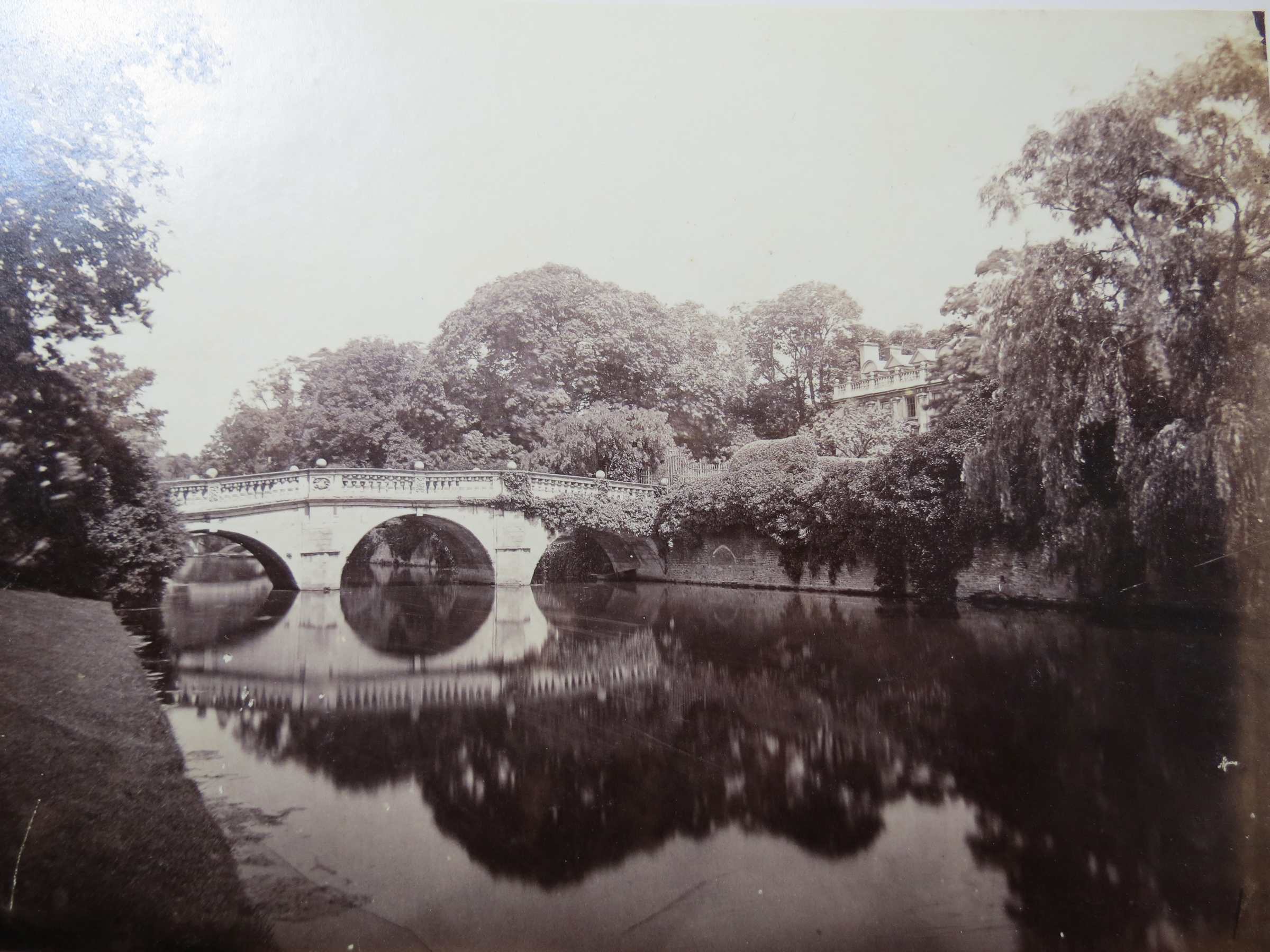 Bridge, Clare College, Cambridge University; circa 1870. Image taken from original albumen print from a bound album of 58 Cambridge University photographs. Original 19th century album in the possession of Kimberly Blaker, New Boston Fine and Rare Books.